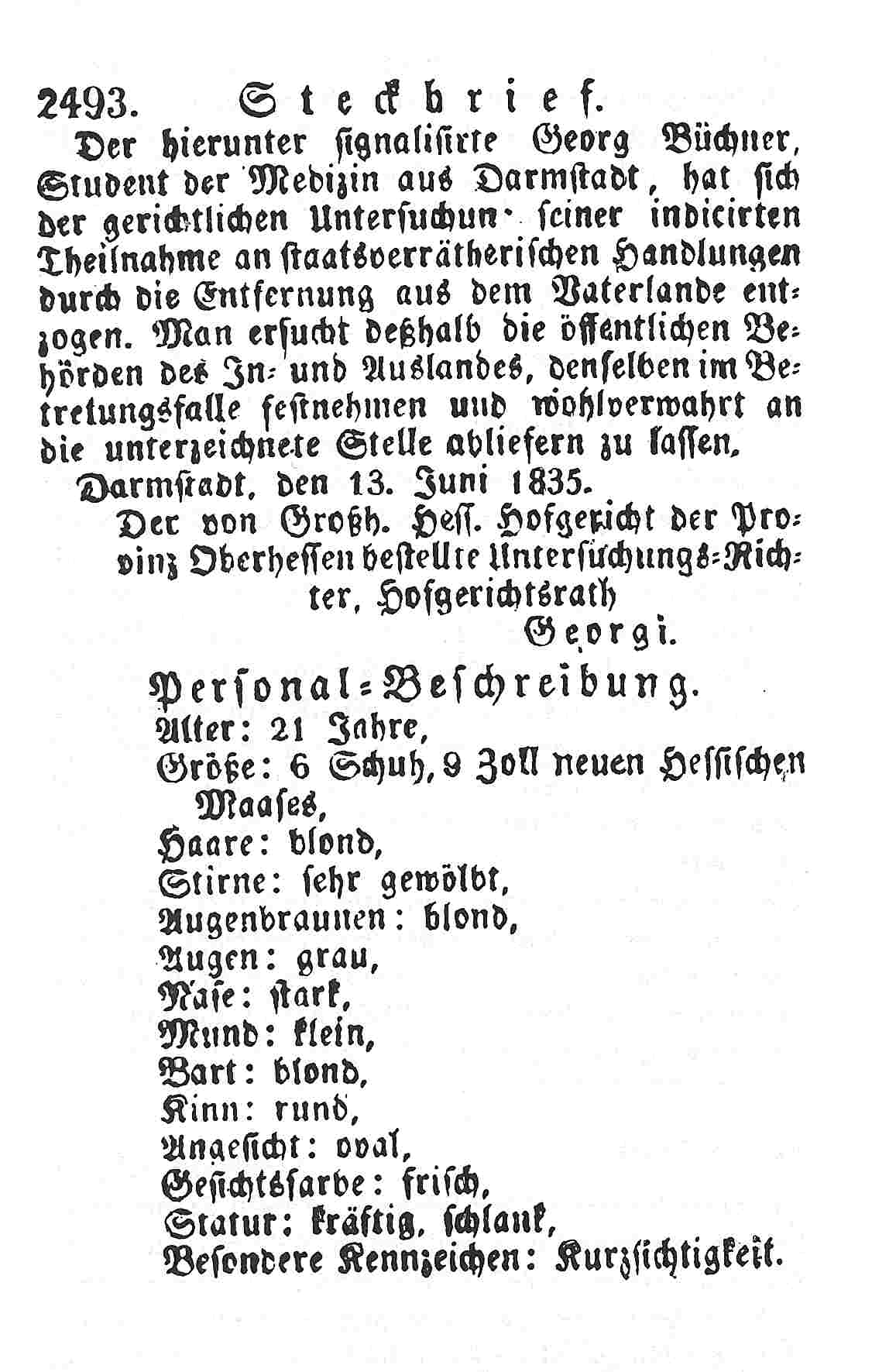 Wanted poster for the german writer Georg Büchner from June 13, 1835.